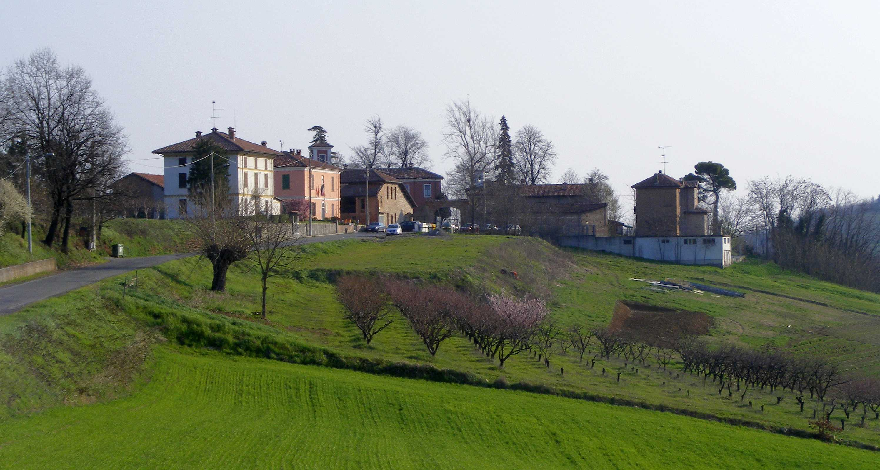 Berzano di Tortona (AL, Italy): panorama